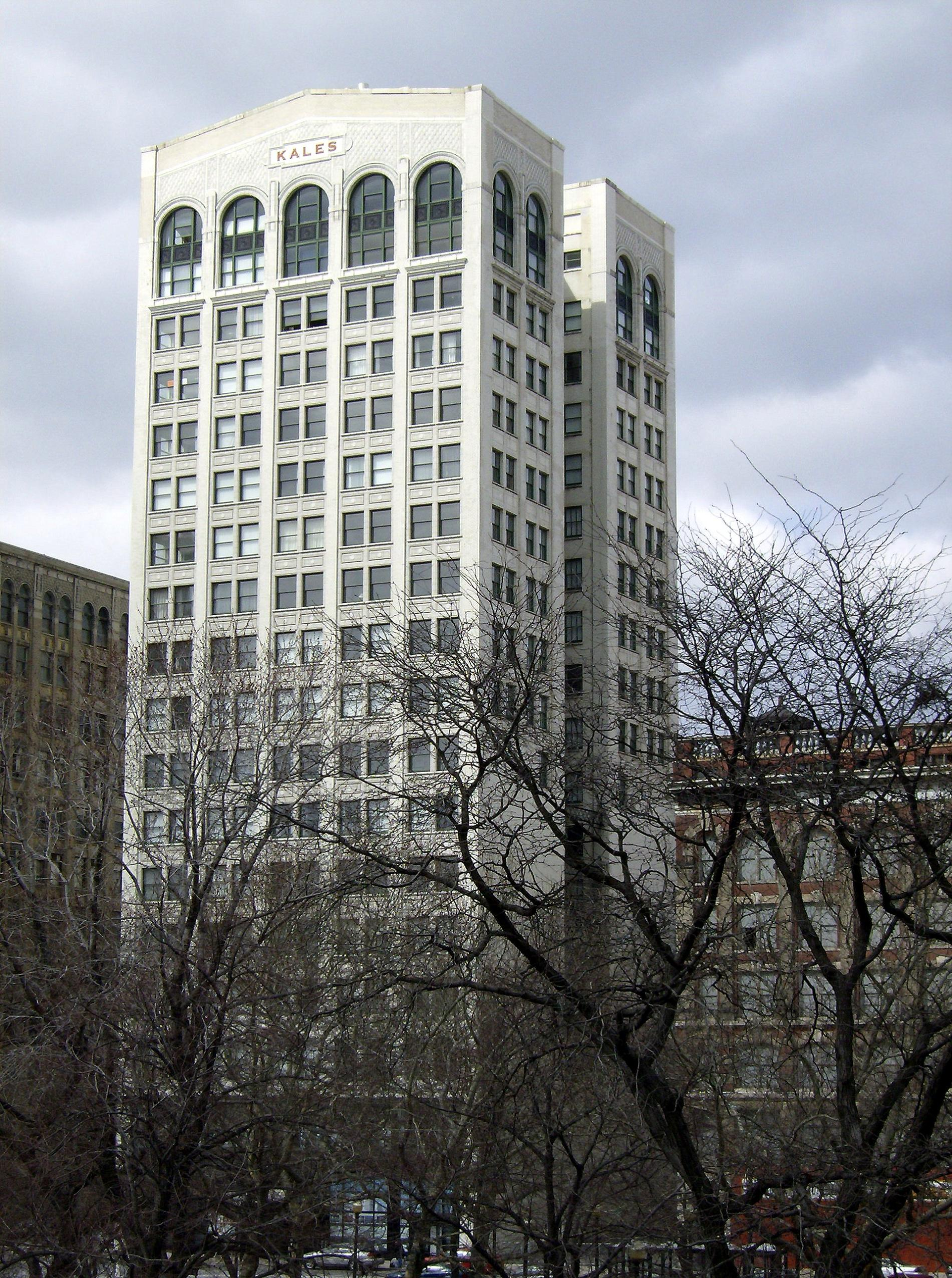 The Kales Building, originally named the Kresge Building — on Park Avenue across from Grand Circus Park, in Midtown Detroit, Michigan.. The 19 floor building was designed by Albert Kahn and constructed in 1914. A present day high-rise apartment building. Contributing property to the Grand Circus Park Historic District.